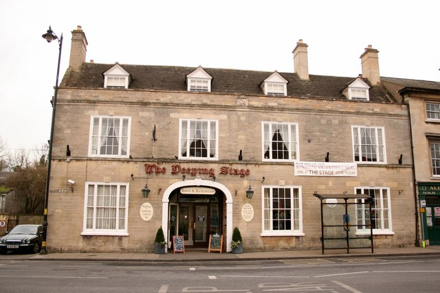 The New Inn. Formerly The New Inn with a datestone of 1802, now re-named the Deeping Stage.